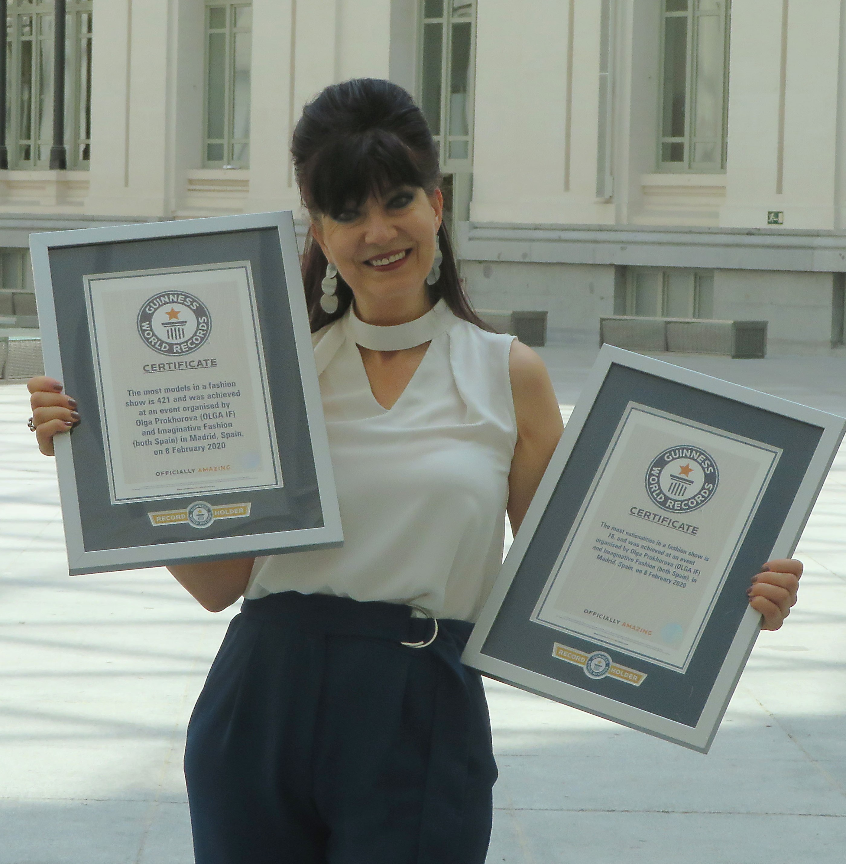 Olga Prokhrorova, Spanish fashion designer holding her two Guinness World Records titles obtained in Madrid, on February 8, 2020